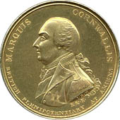 Lord Cornwallis Obverse of a medal minted in 1802